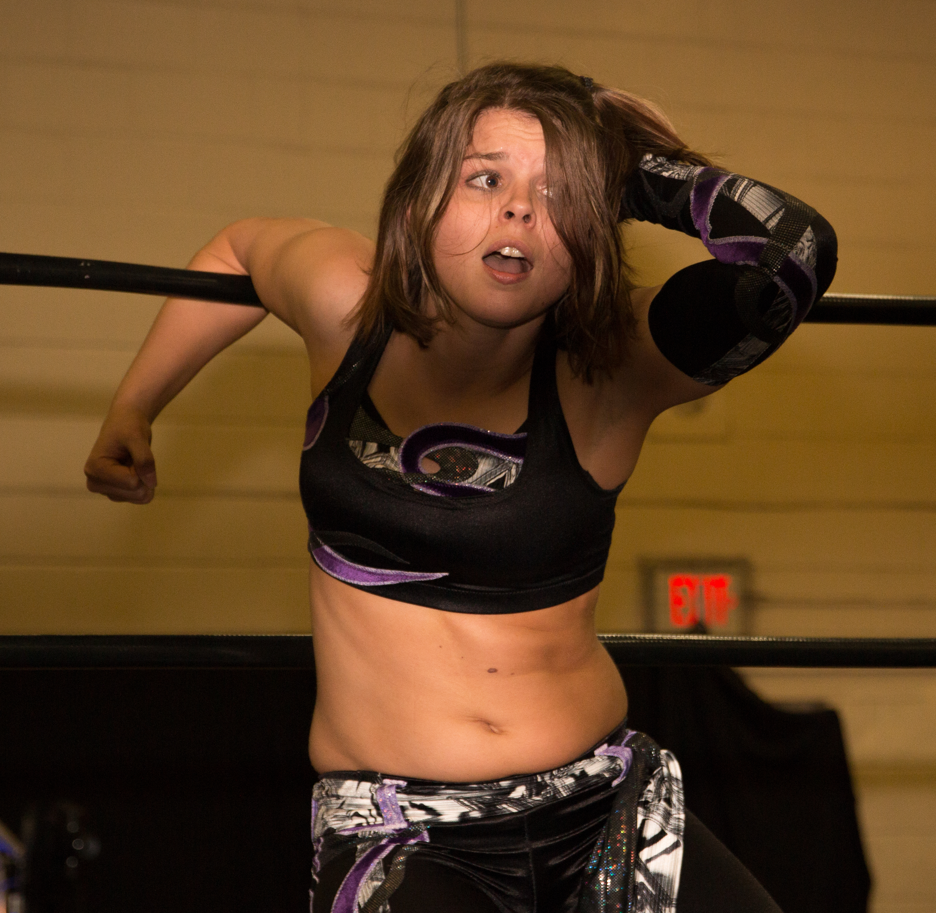 Independent wrestler Porta Perez mid-match at Smash Wrestling's Give Divas a Chance show in Etobicoke, ON